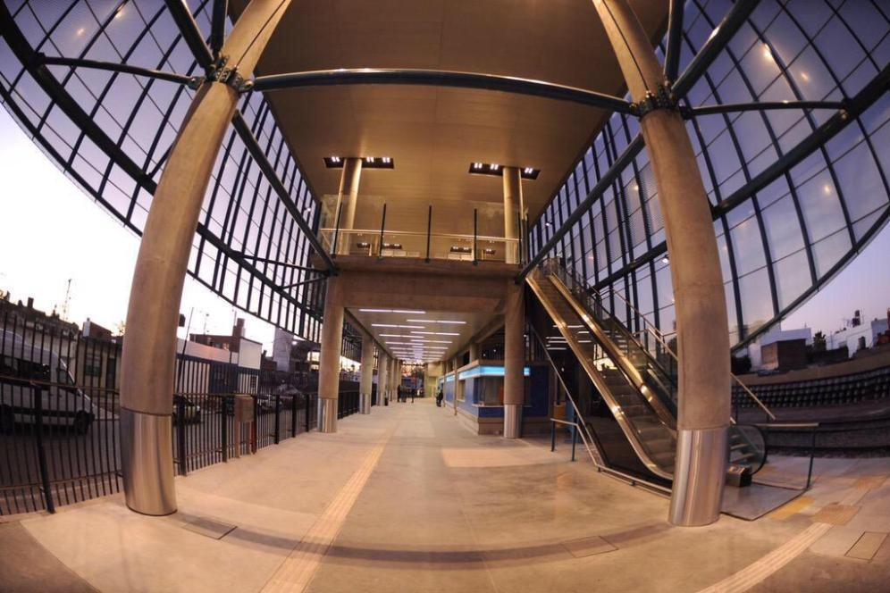 Rosario Sur train station, inaugurated in July 2015.